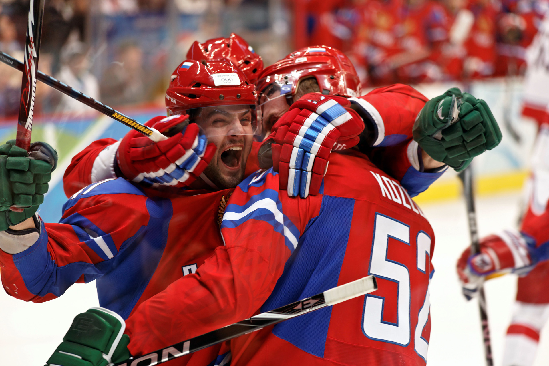 Russia forward Alexander Radulov celebrates Viktor Kozlov's (#52, left) goal against Czech Republic during the 2010 Winter Olympics